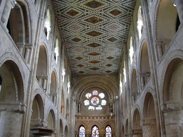 The nave of Waltham Abbey, Essex, with Norman piers and 1876 additions by William Burges